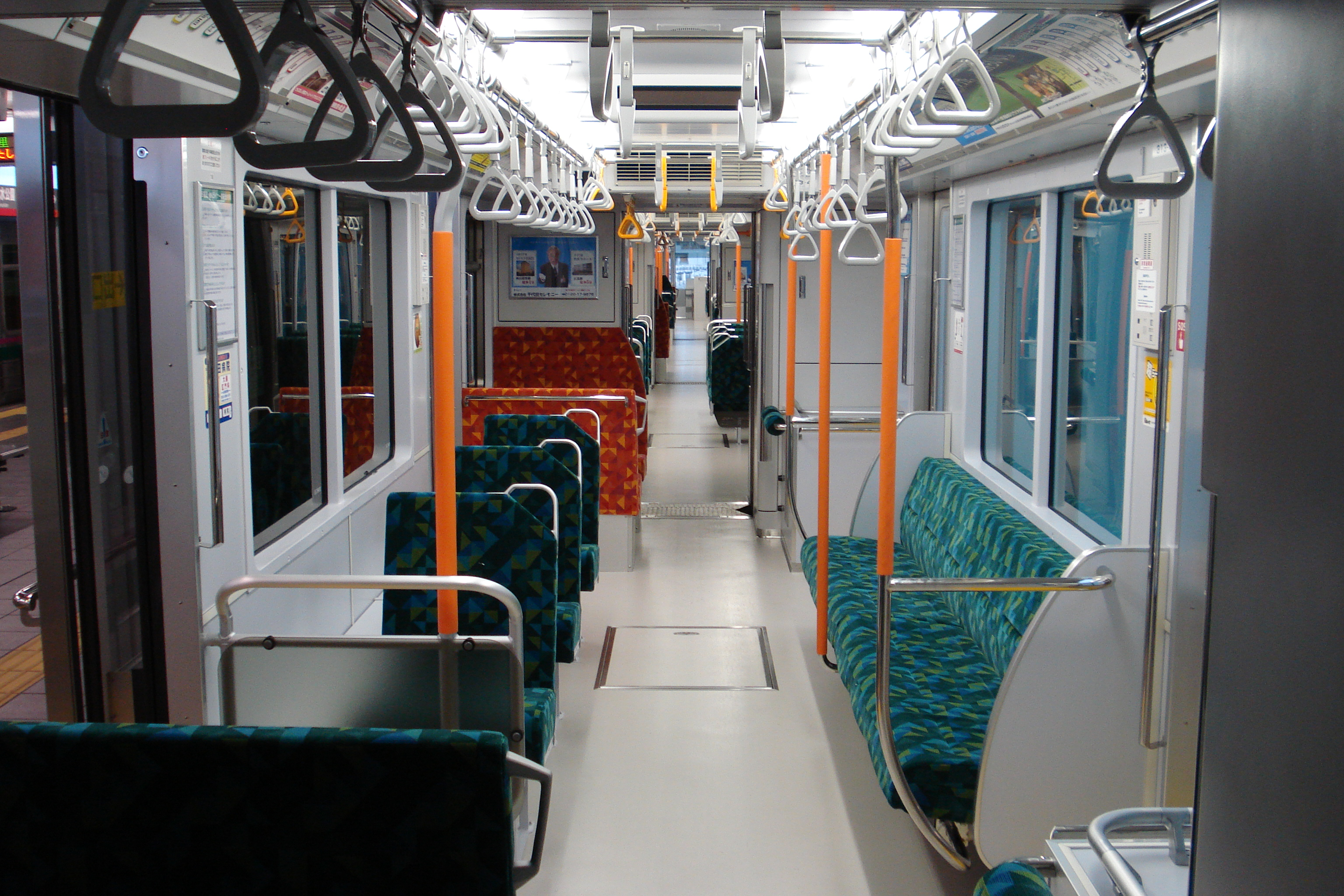 The interior of a Toei Nippori-Toneri Liner 300 series train